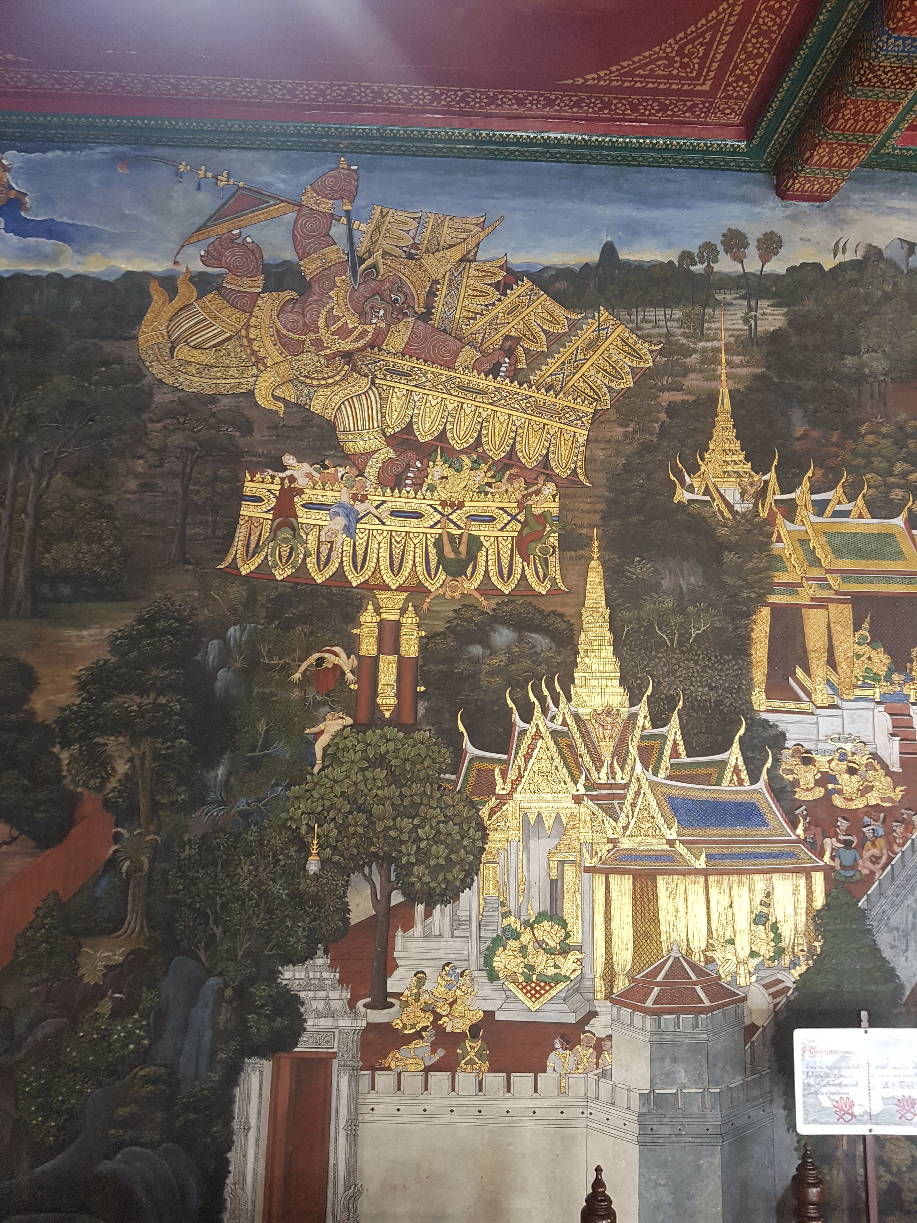 Overview: Painting at the Temple of the Emerald Buddha, Bangkok, depicting characters or scenes from Rammakian, a Thai version of the Hindu epic poem Rāmāyaṇa. Characters/scenes depicted: Su-khrip (สุครีพ), a monkey soldier, destroys an Template:Chatra (umbrella) installed by Thotsakan (ทศกัณฐ์; "Ten-Necked"), the demon king of Longka (ลงกา), to block the light.